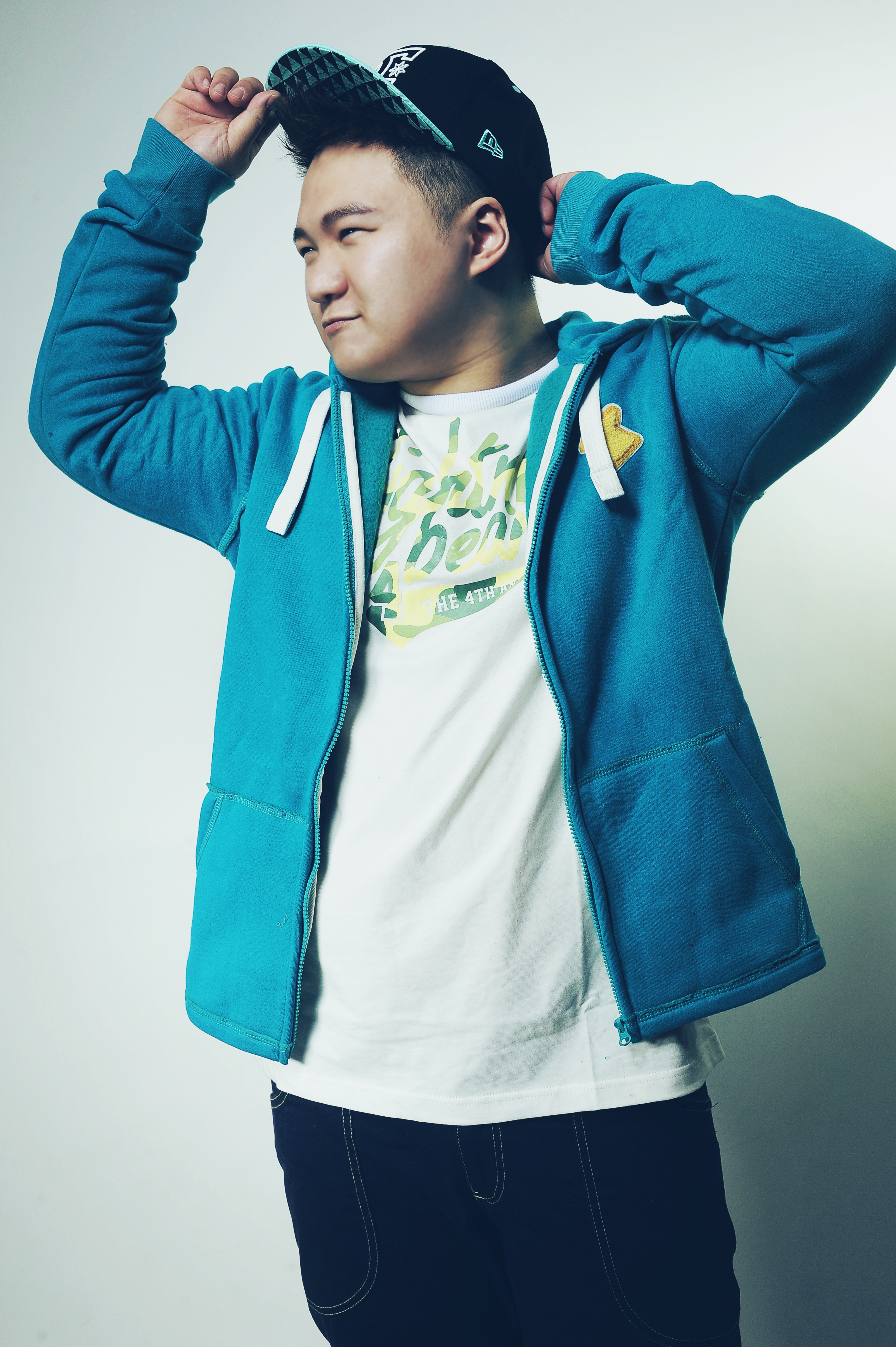 JASPERLEE FACE PIC